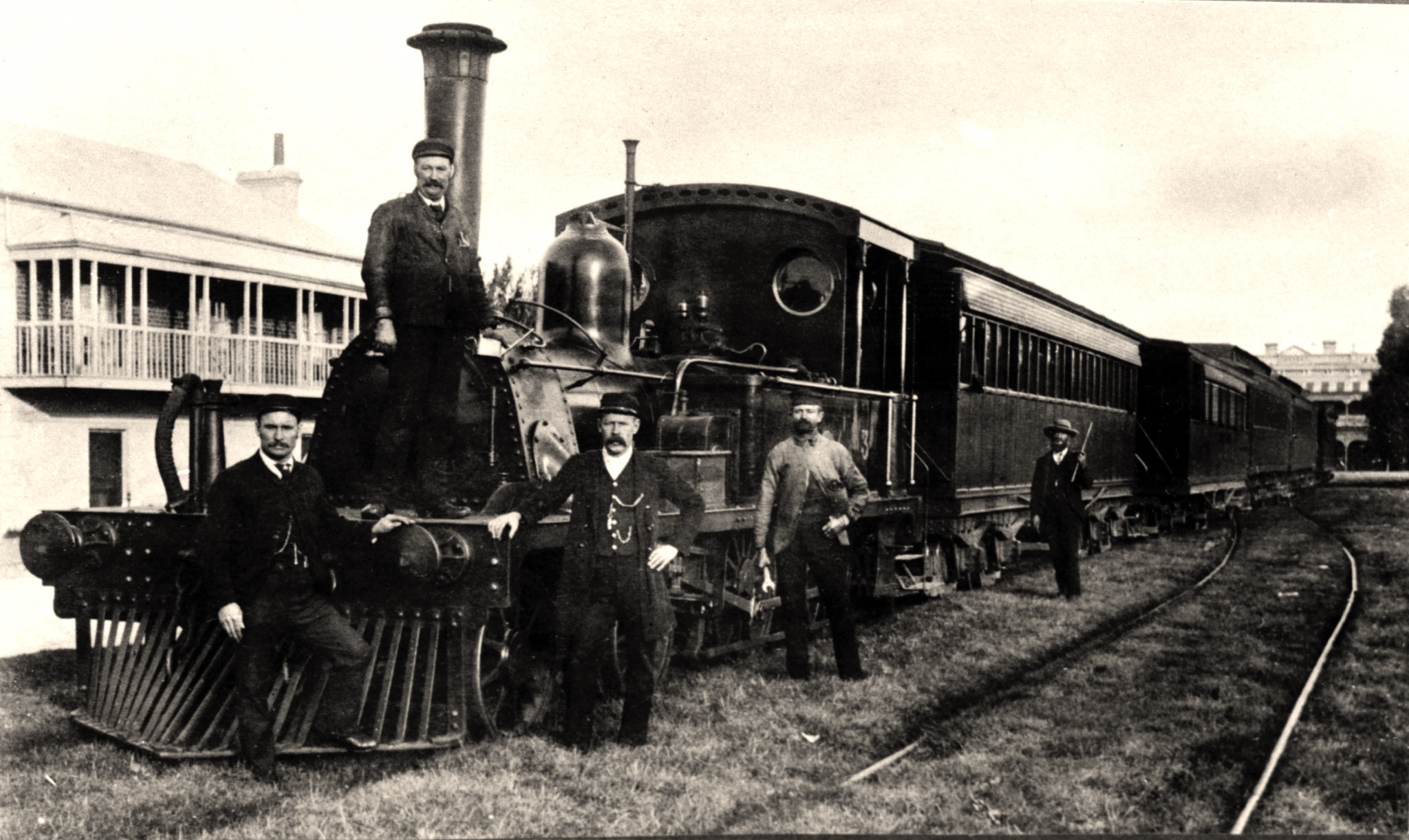 Four men next to a locomotive, and one on the front of it, with five passenger cars behind, in a grassy area of a street. The Glenelg Railway Company train is in Althorpe Place (now named Colley Terrace), Glenelg, South Australia, terminus of the line from North Terrace, Adelaide. The locomotive, originally owned by the Adelaide, Glenelg and Suburban Railway Company, is 4-4-0 tank locomotive no. 3, built by Robert Stephenson and Company. In the distance is a building in Jetty Road.